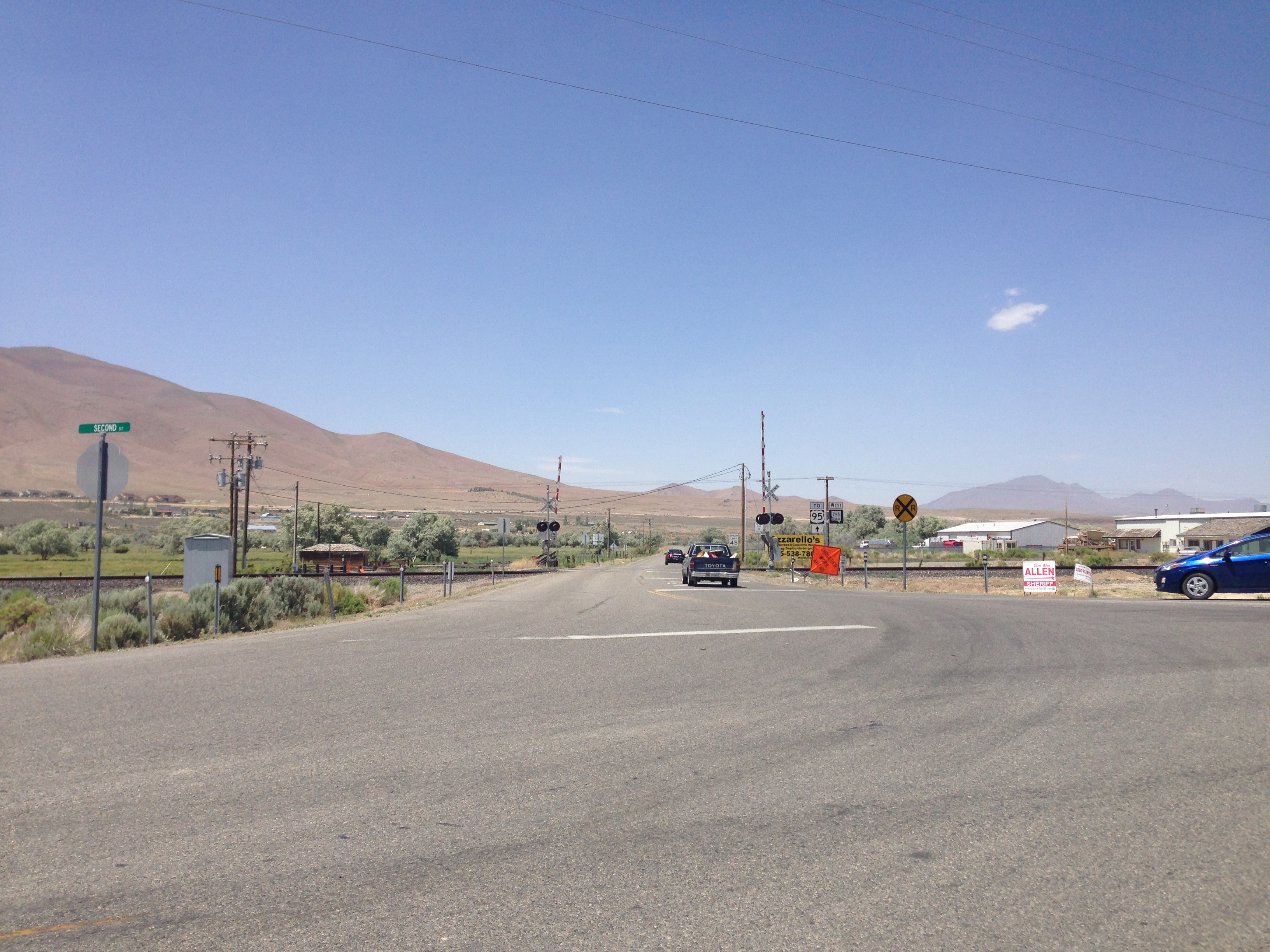 View west from the east end of Nevada State Route 795 (Reinhart Lane) at Nevada State Route 289 (East Second Street) in Winnemucca, Nevada